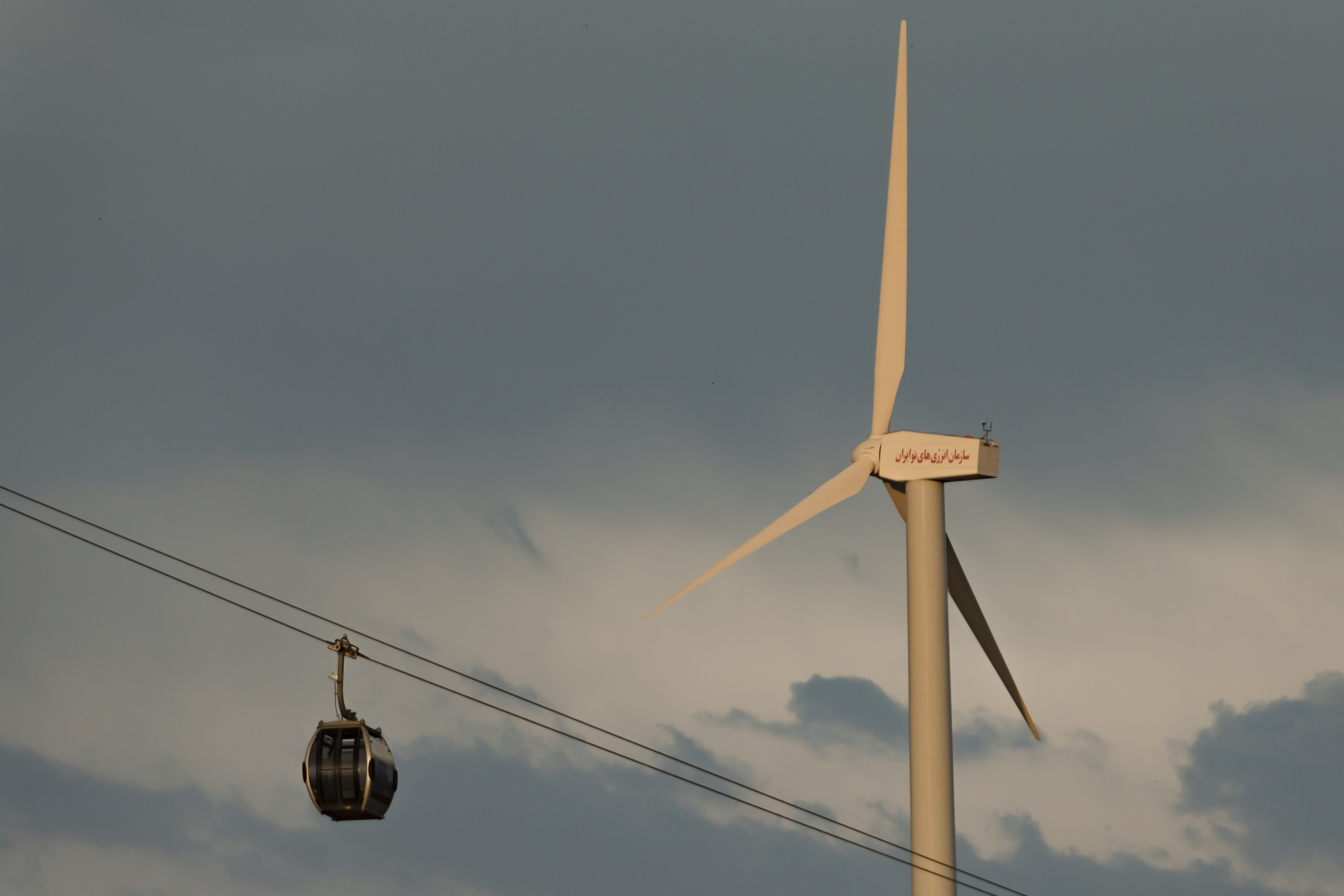 Tabriz is the most populous city in northwestern Iran, one of the historical capitals of Iran and the present capital of East Azerbaijan Province.